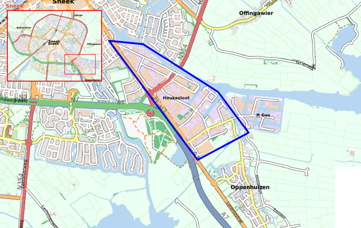 Own reproduction of OpenStreetMap. Houkesloot Sneek.